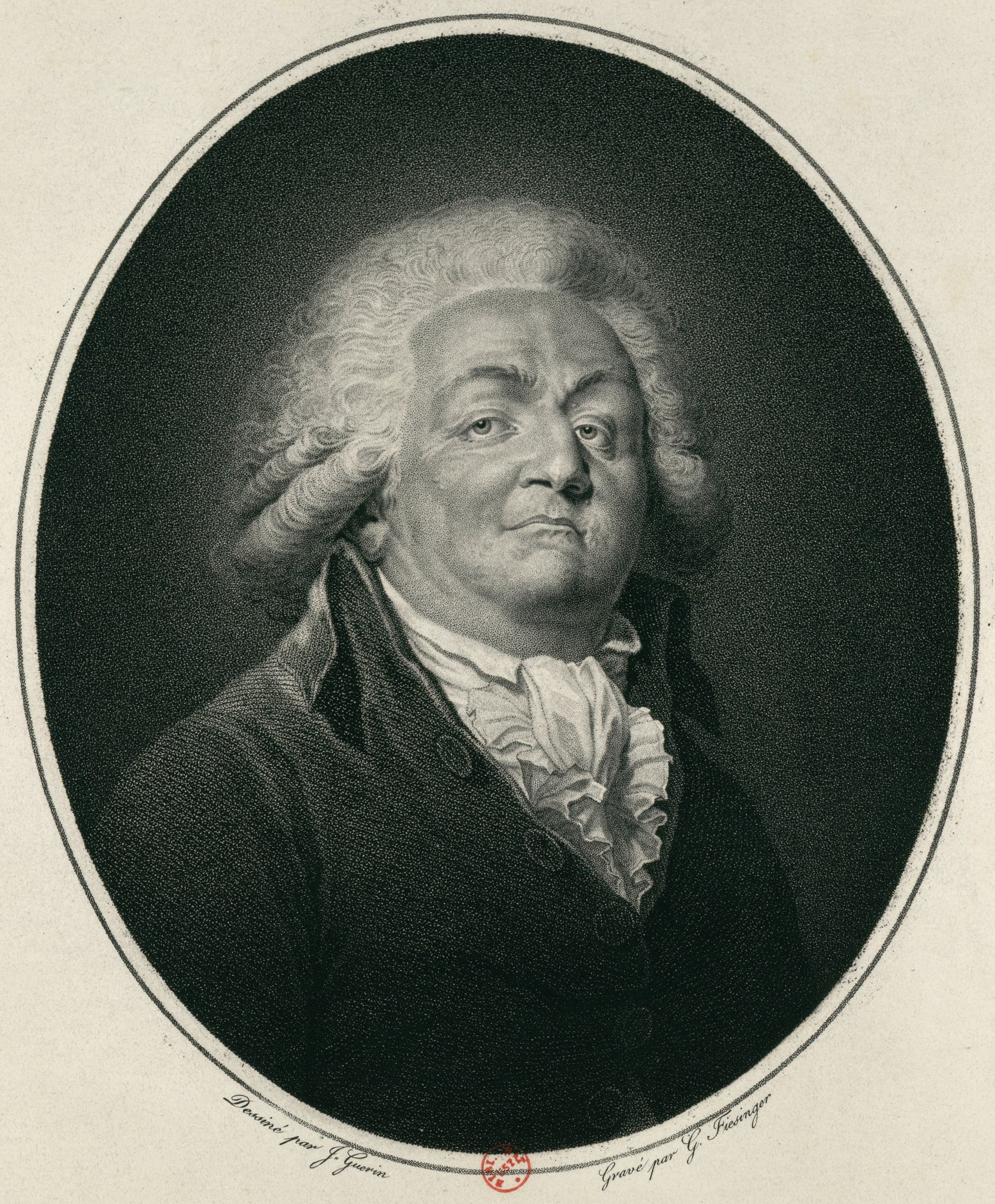 Portrait of Honoré-Gabriel Riqueti, comte de Mirabeau